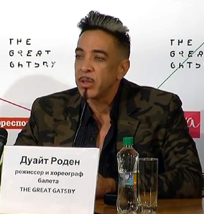 Dwight Rhoden, American choreographer and artistic director of Complexions Contemporary Ballet in Kiev, October 29, 2014.